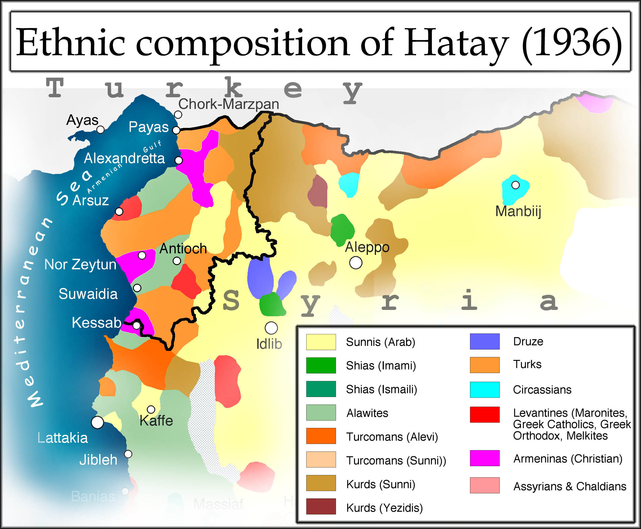 Ethnic composition of Hatay state and neighbouring lands of Syria at 1936.